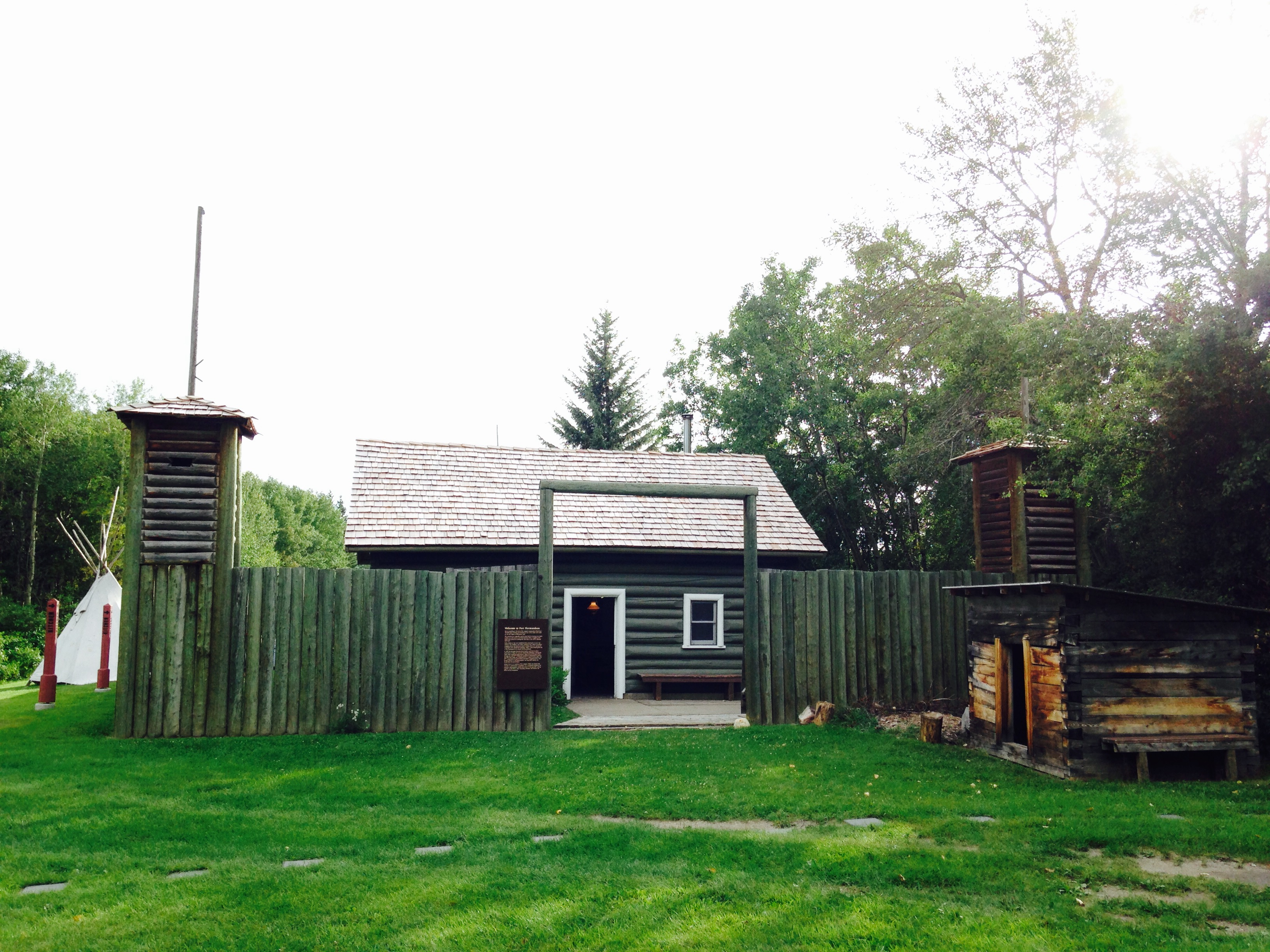 This photo was taken from the north side of the palisade wall.